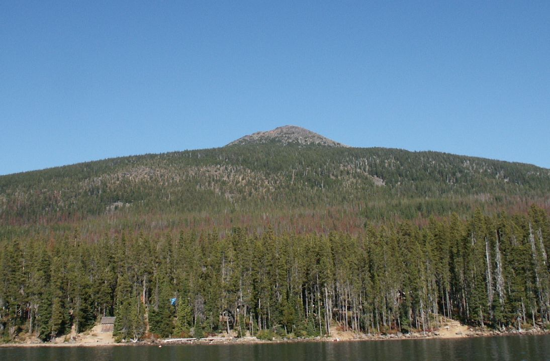 Taken in 2004 from Olallie Scenic Area of Olallie Butte in Oregon.